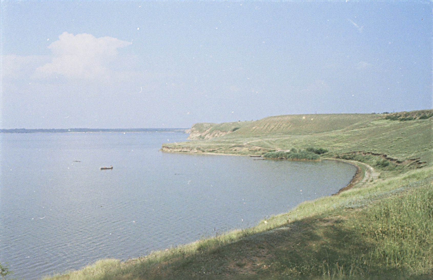 The Mostiştea Reservoir at Sultana, Călăraşi County (western shore, facing Boşneagu). Photograph taken with a friend's camera, then scanned.